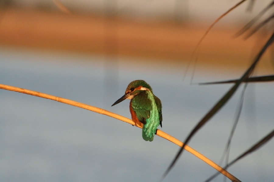 Common kingfisher (Alcedo atthis), Durankulak Lake